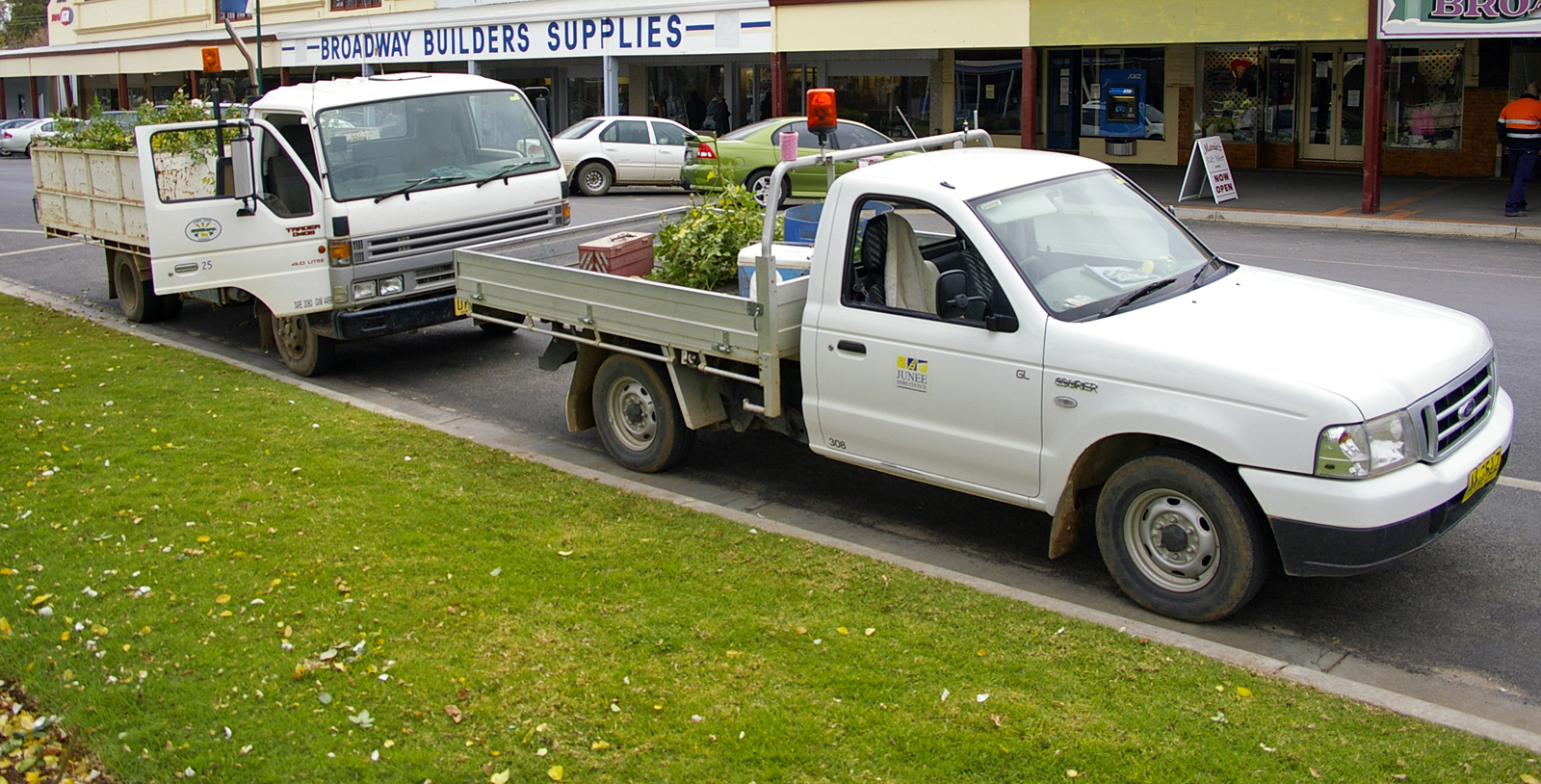 Junee Shire Council vehicles.